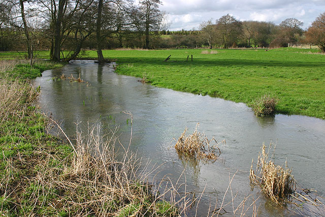 The River Dorn near Buswell's Thicket The River Dorn, almost about to burst its banks.